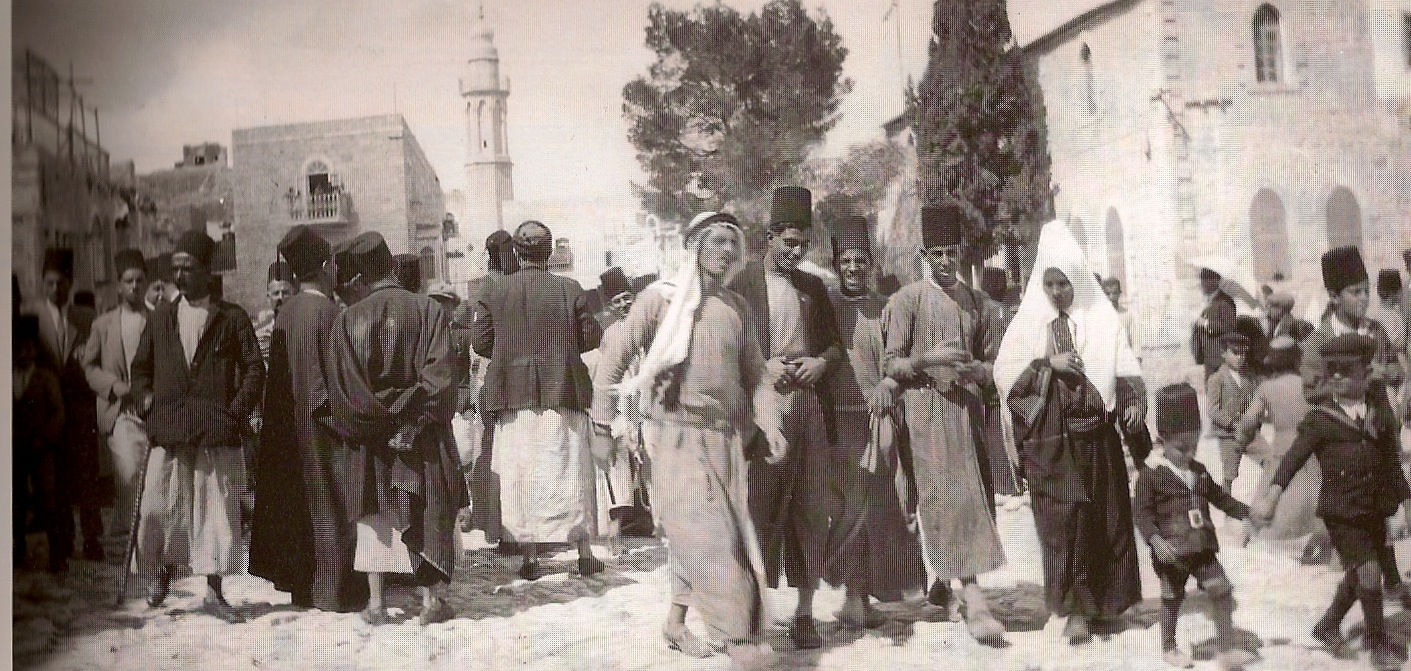 Bethlehem market, 1925-31.